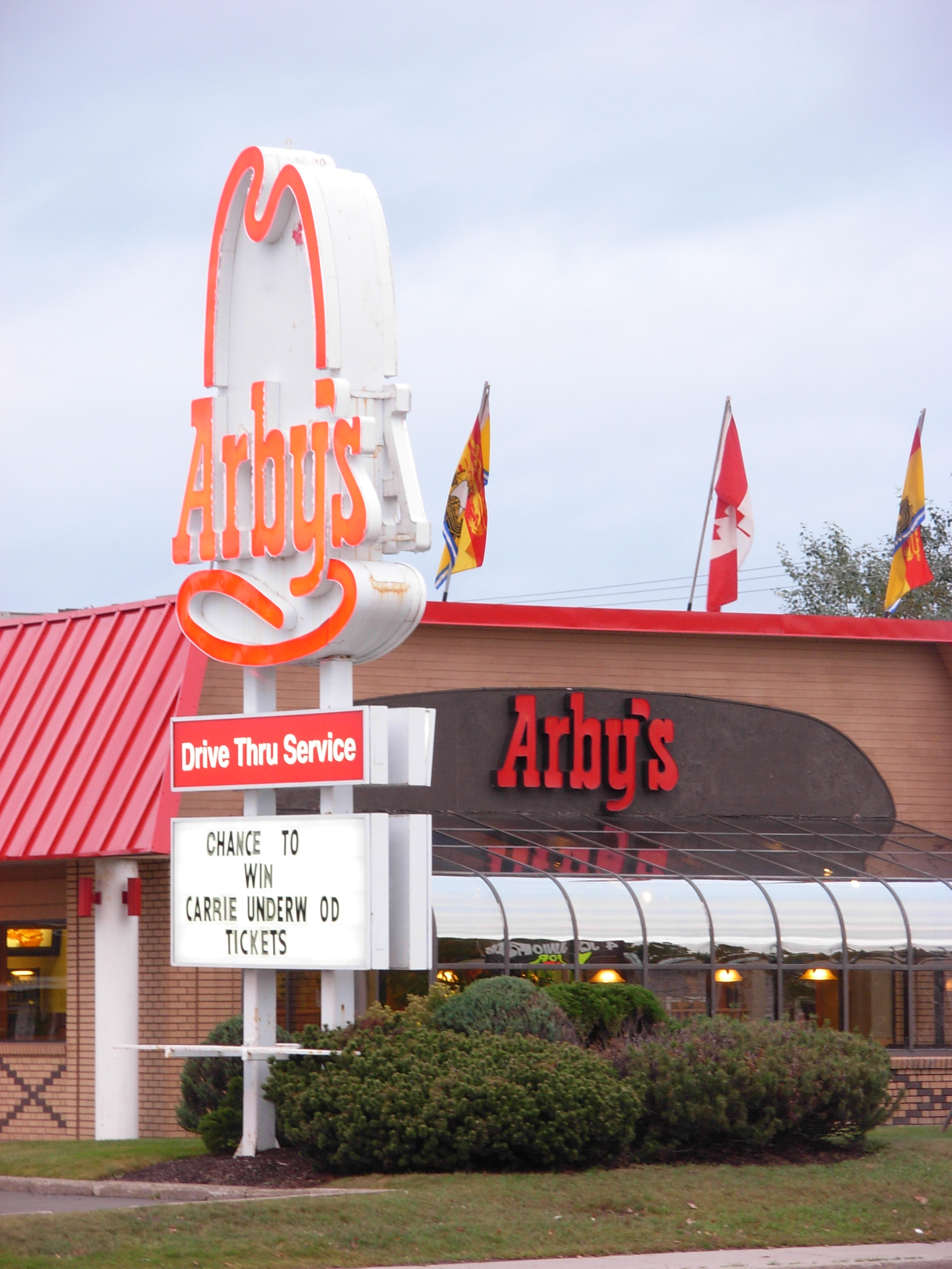 An Arby's in Moncton